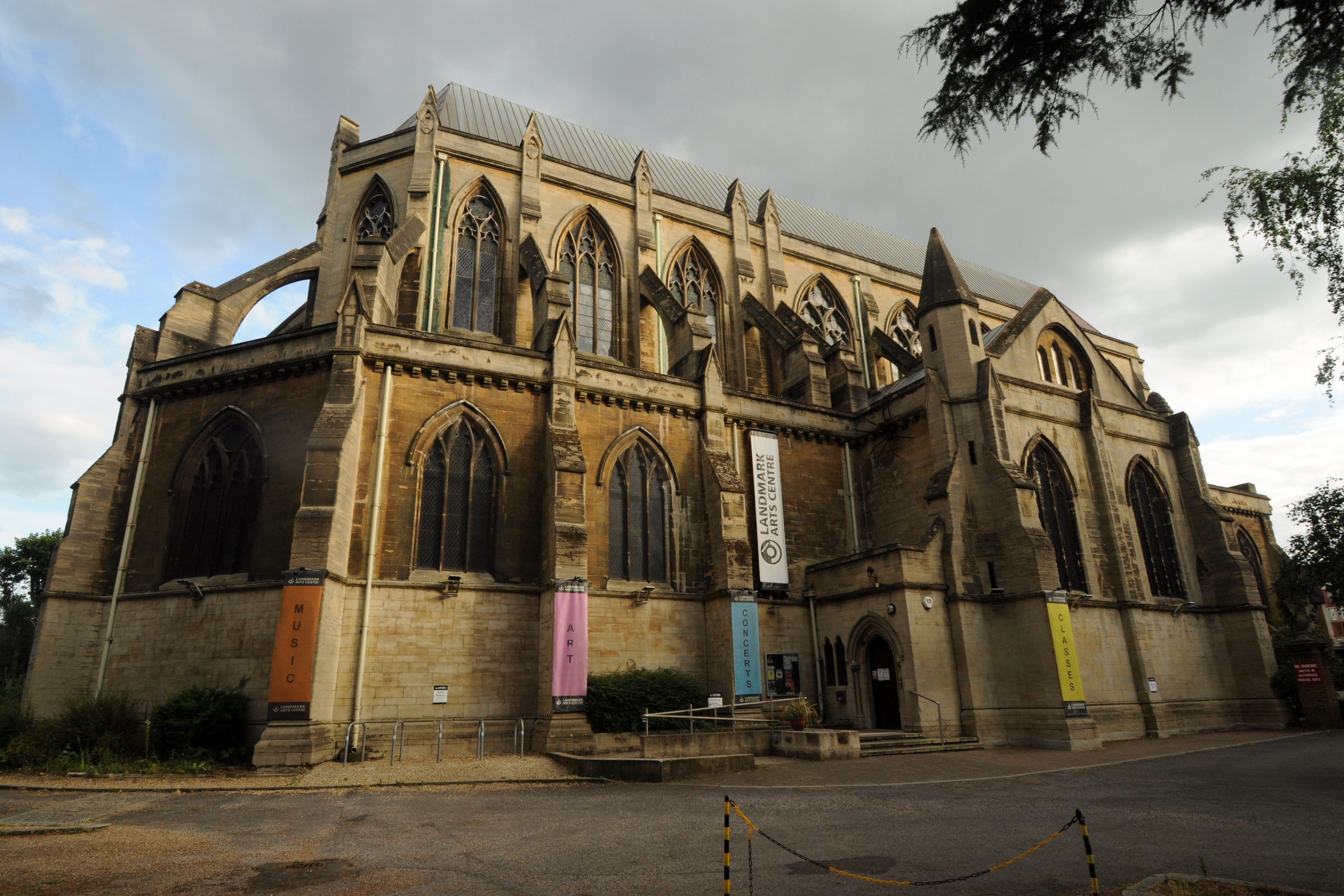 St Alban's Church, Teddington Wikidata has entry Q15979294 with data related to this item.